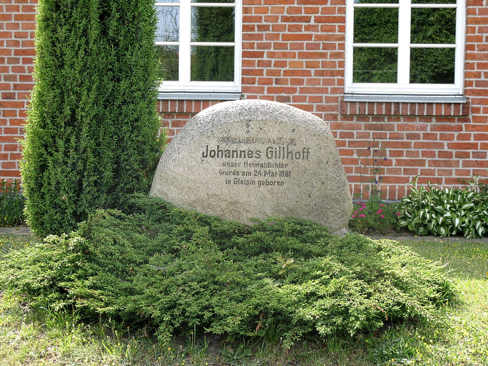 Memorial for Johannes Gillhoff in Glaisin, Ludwigslust, Germany